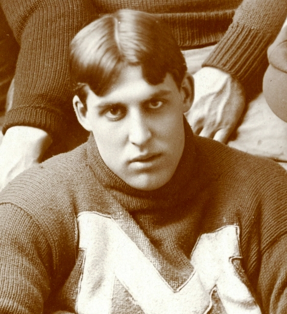 Photograph of Harry G. Hadden